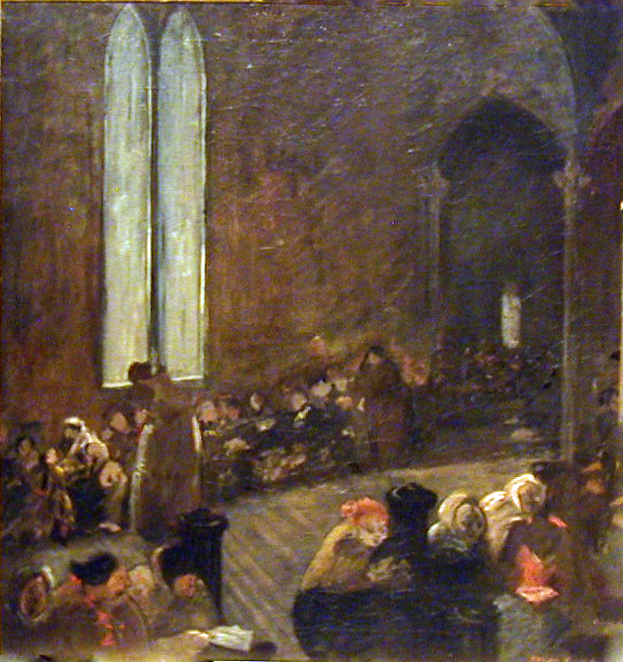 Early painting by Ethel Myers